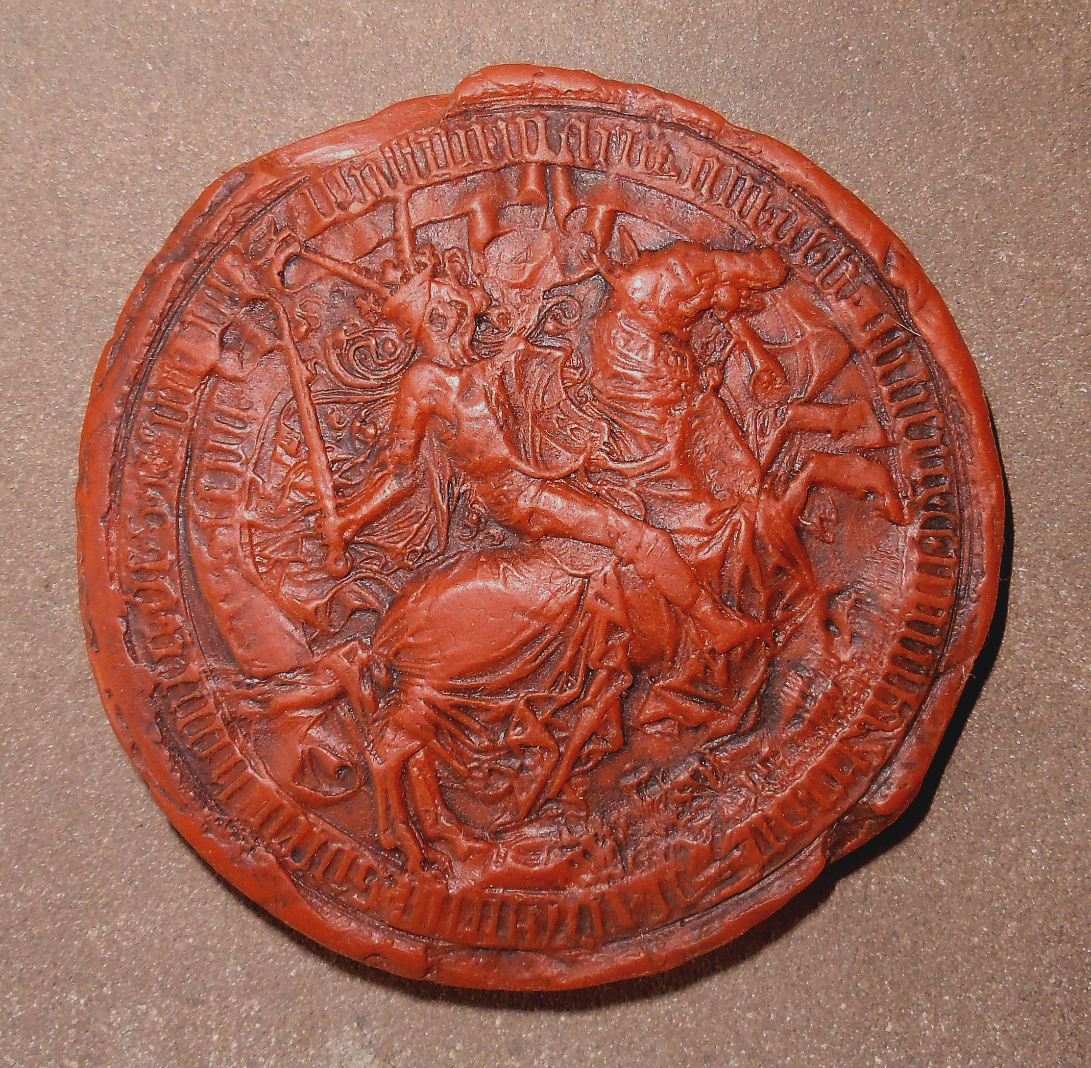 Photograph of a replica of the seal of Markgraf Philipp von Hachberg-Sausenberg (1490) in the museum of Rötteln Castle. The original is located in the Generallandesarchiv Karlsruhe